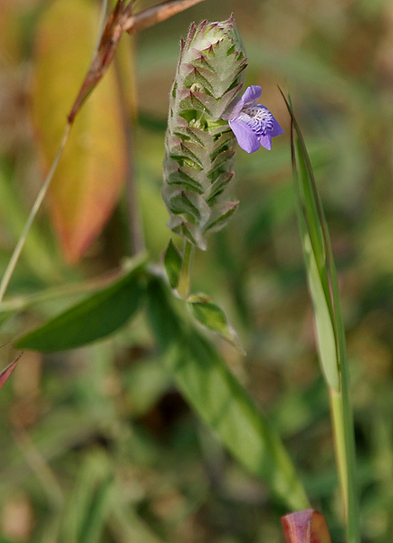 Rungia pectinata in Kawal Wildlife Sanctuary, Andhra Pradesh, India.